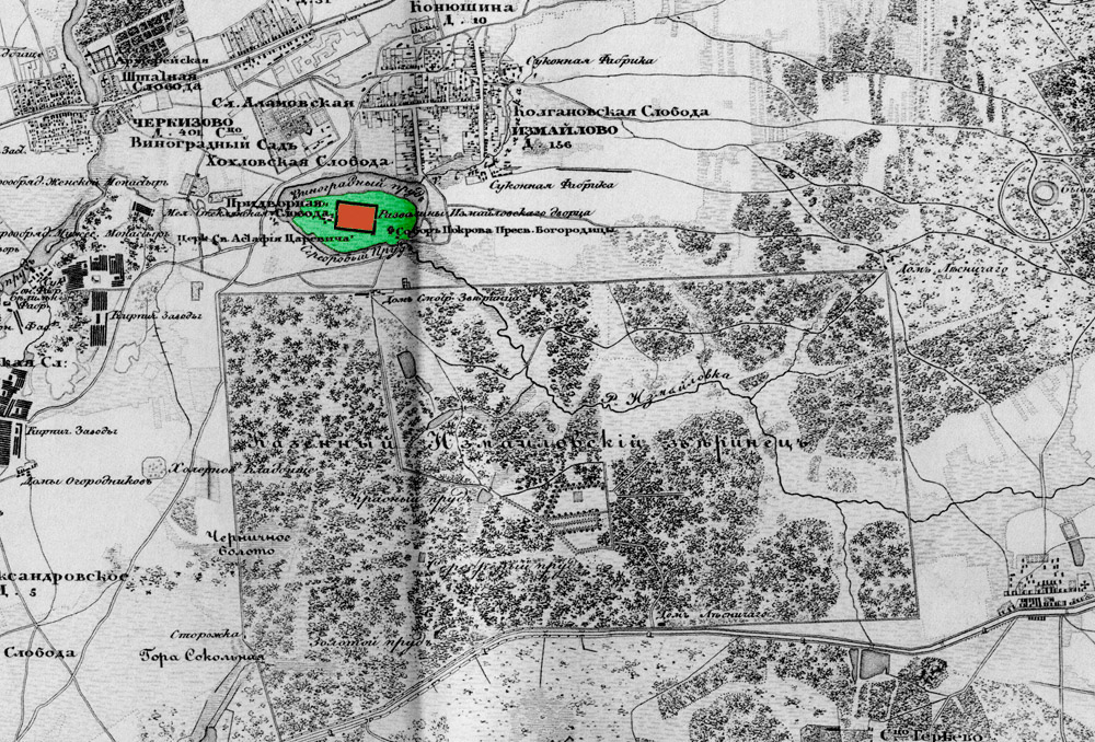 Old map of Izmailovo in 1848. The main island shown in green, the Court in red. Note that most of present-day ponds in the park are missing. They were drained in 1760s, and restored in 1930s.